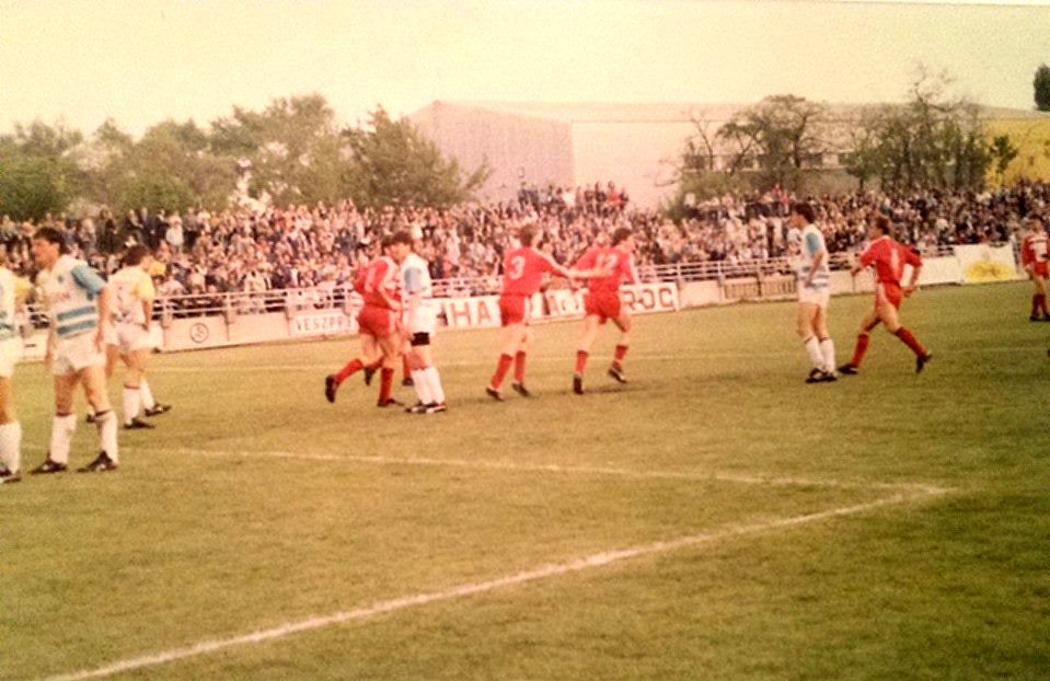 They played for Hungarian Cup in quarter final.